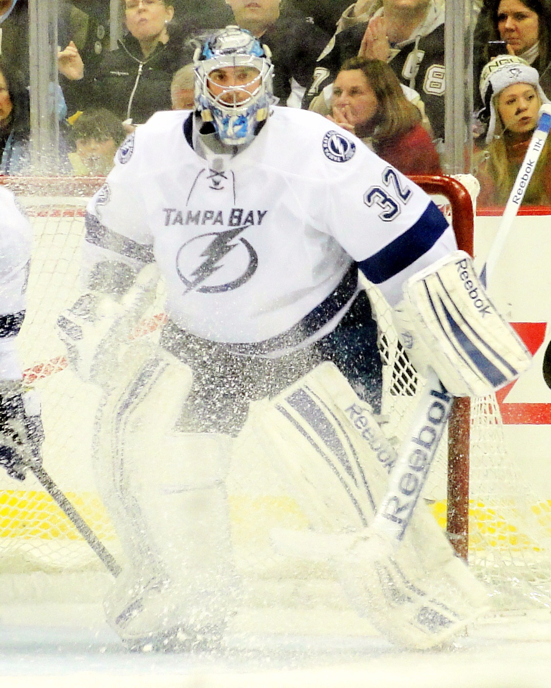 Mathieu Garon of the Tampa Bay Lightning during a February 12, 2012 game against the Pittsburgh Penguins at Consol Energy Center in Pittsburgh, PA.